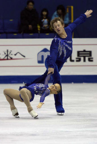 Lubov Iliushechkina & Nodari Maisuradze (RUS) perform an assisted cantilever, which was followed immediately by a twist lift, during their short program at the 2008-2009 Junior Grand Prix Final. They placed first in this segment of the competition and first overall.